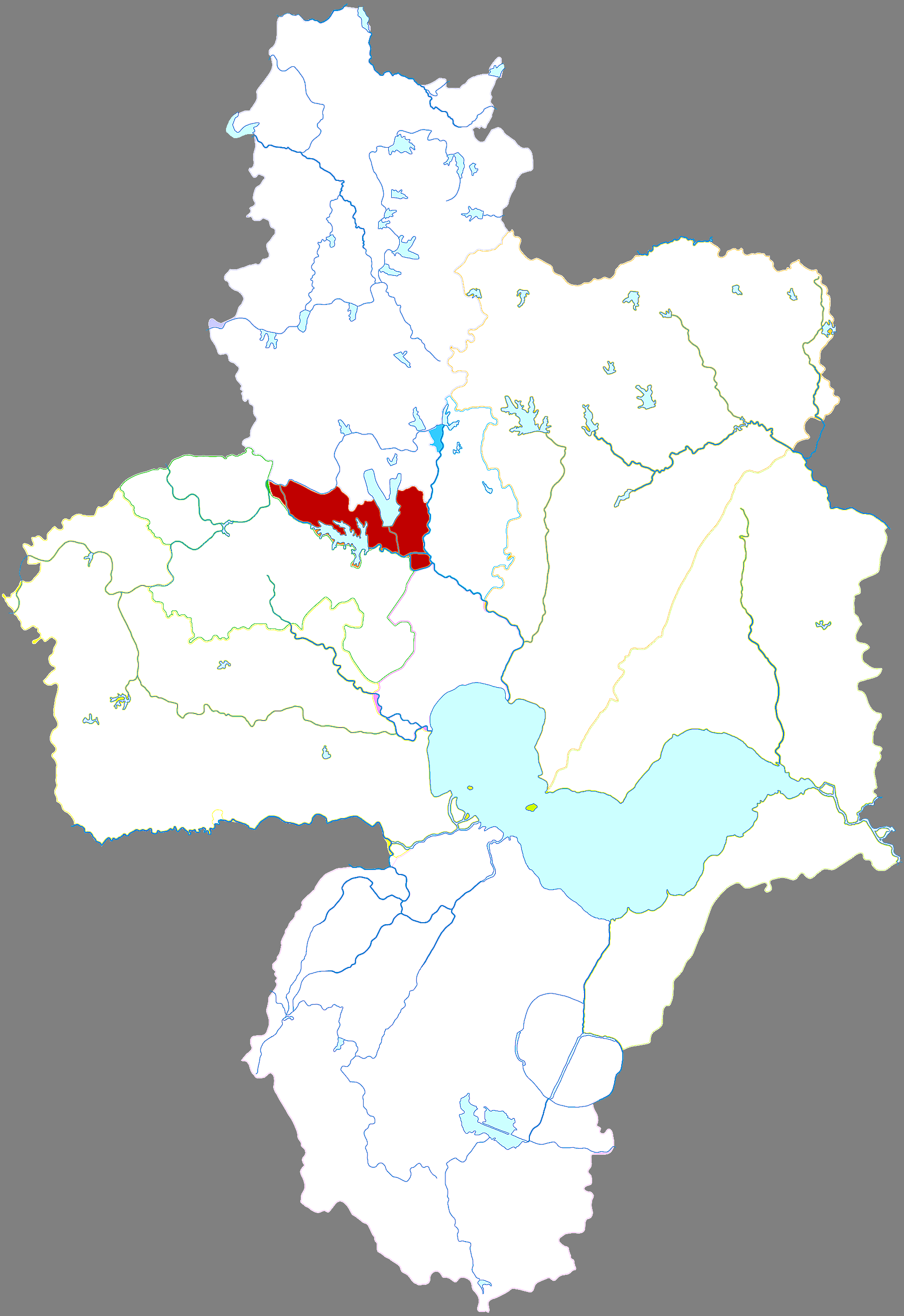 Location of Luyang district in Hefei city, China